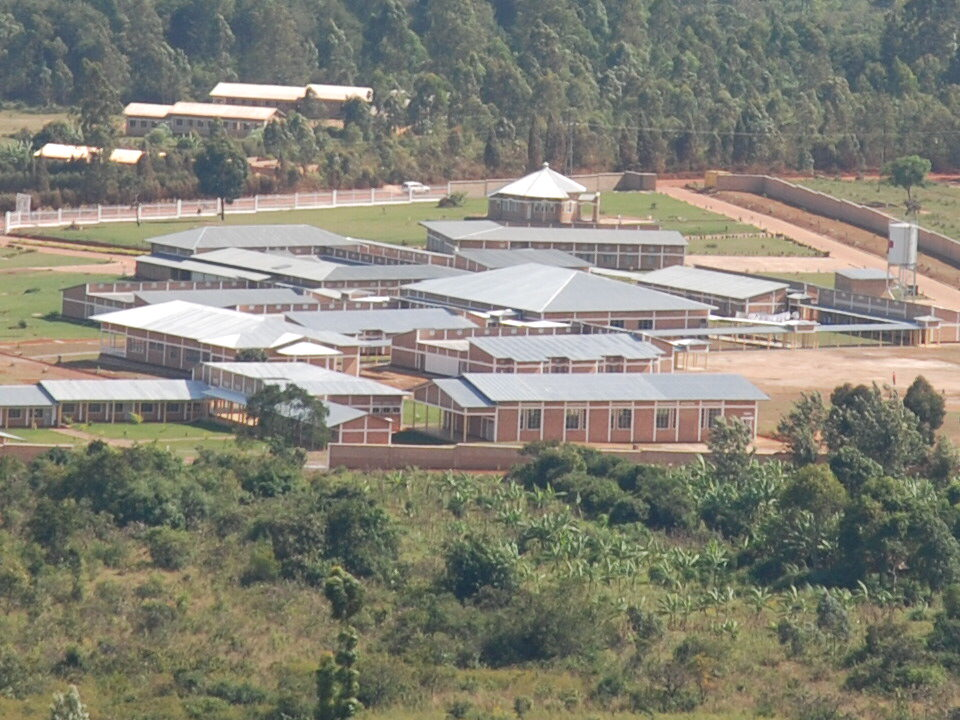 This is view of all the REMA Hospital built by Maison Shalom in Ruyigi province in Burundi